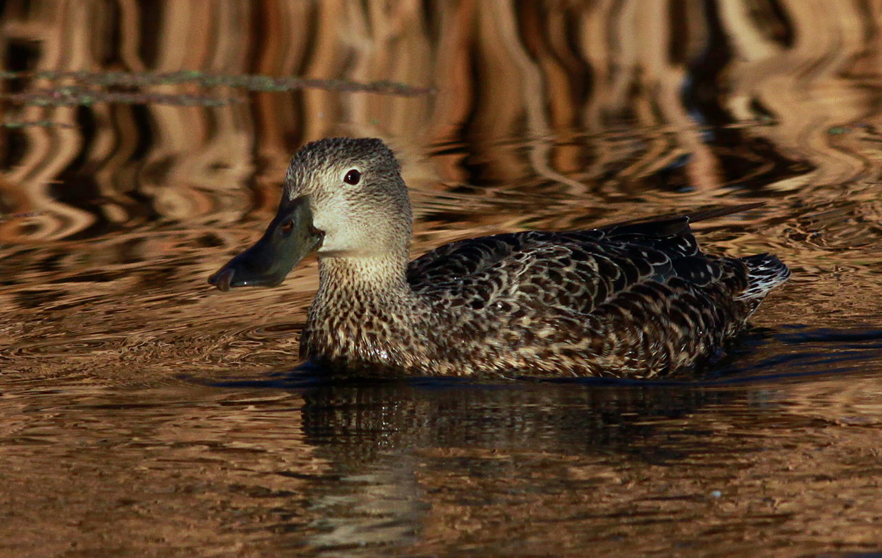 Cape Shoveler, Anas smithii (female) - note dark eyes